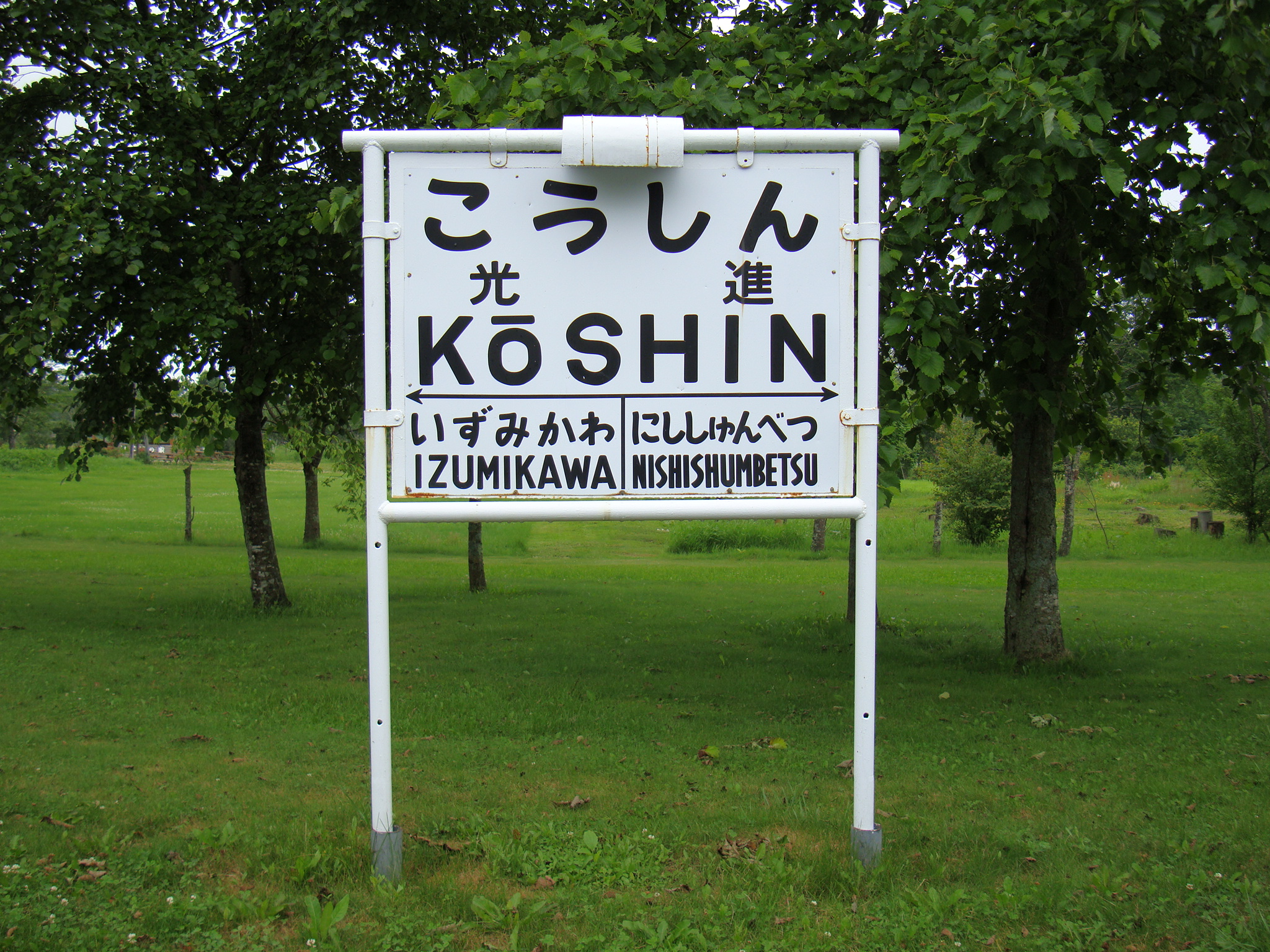 Kōshin Station Running in board on Bekkai railway Memorial park. Disused train stations on Shibetsu Line.